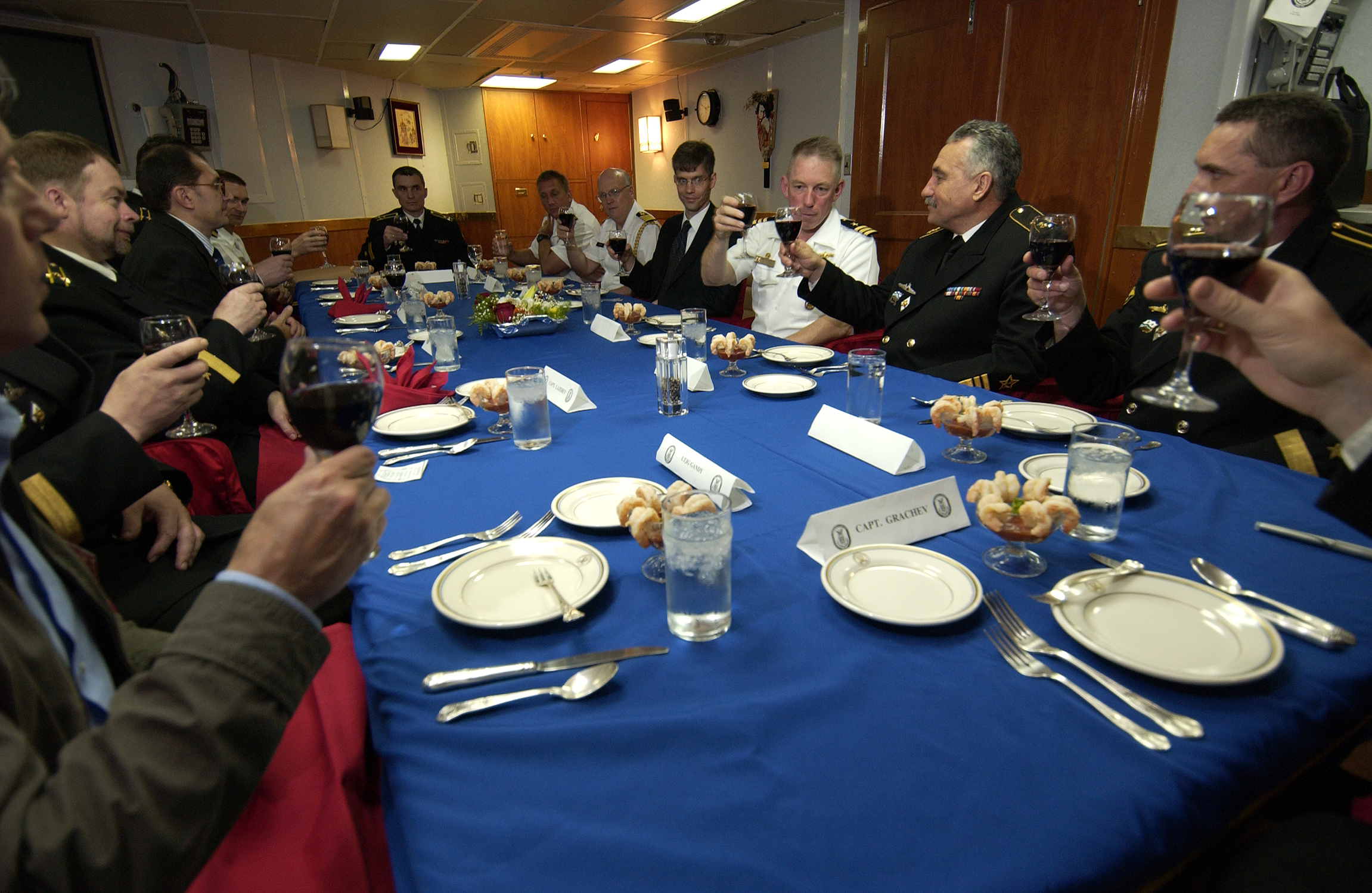 Vladivostok, Russia (July 1, 2005) – Commanding Officer, USS Curtis Wilber (DDG 54), Cmdr. John T. Lauer III, toasts the commander of the Russian Pacific Fleet, Adm. Federov, in the wardroom aboard Curtis Wilber. Wilber, along with the mine warfare ships USS Patriot (MCM 7) and USS Guardian (MCM 5), visited Vladivostok to celebrate the 145th anniversary celebration of the city, U.S. Independence Day on the Fourth of July, and to participate in a wreath-laying ceremony for Russian Sailors who scarified their lives during World War II. Curtis Wilber is currently on a routine scheduled underway period. U.S. Navy photo by Photographer's Mate 2nd Class John L. Beeman (RELEASED)